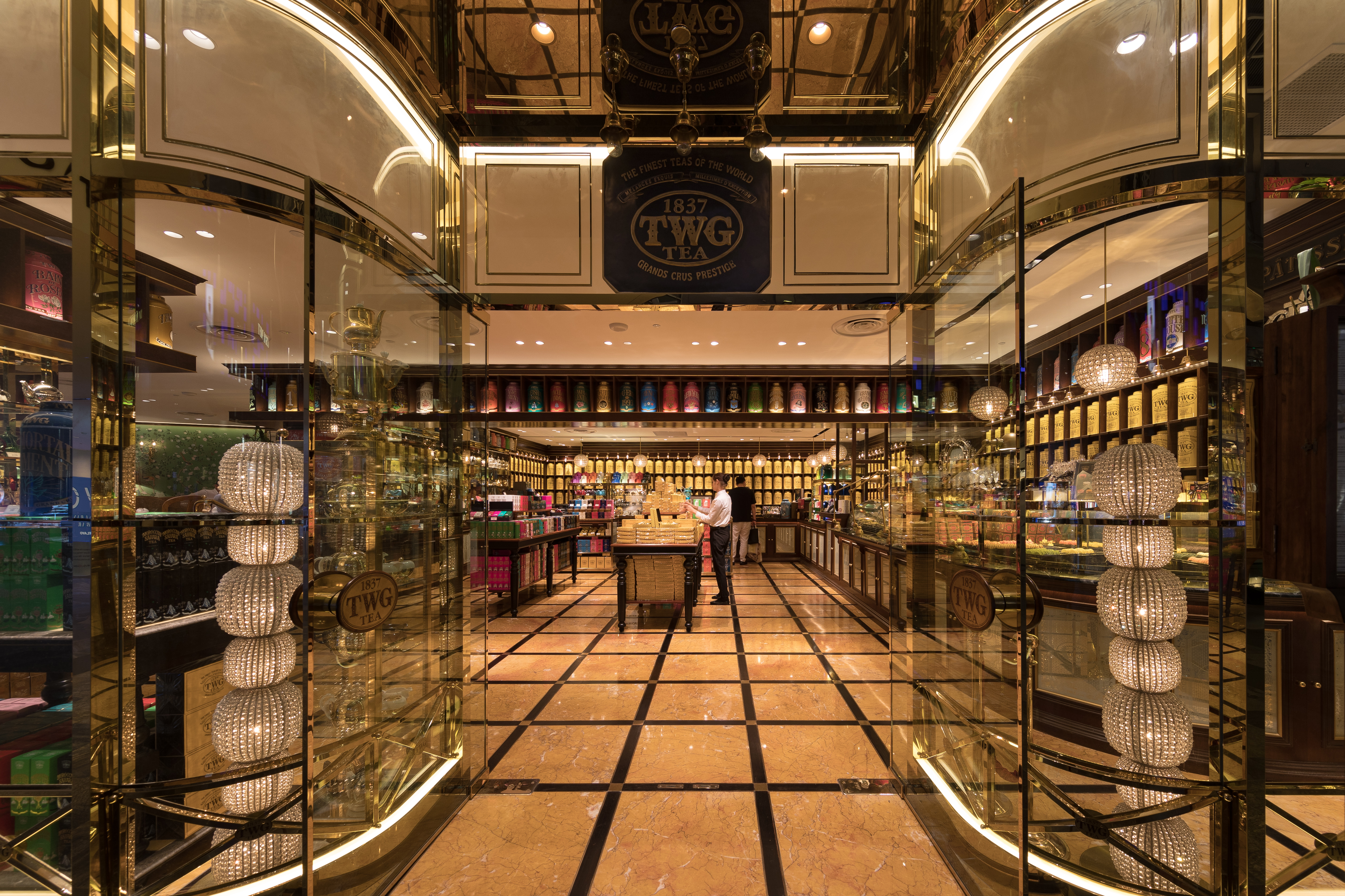 TWG Tea shop entrance, windows and interior, at Marina Bay Sands shopping mall, Singapore